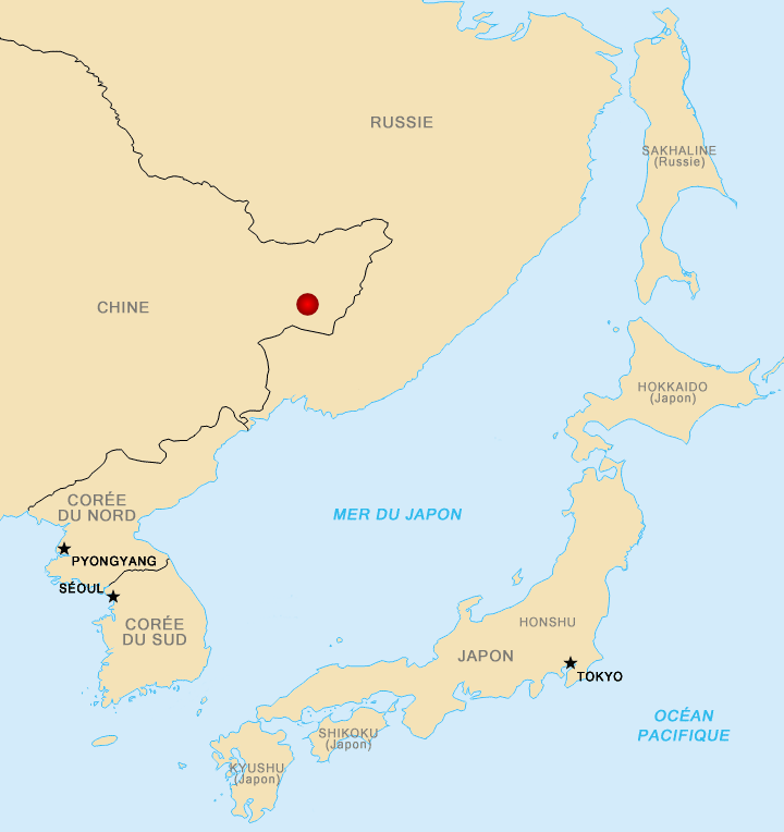 Tadorna cristata distribution map, according to IUCN.